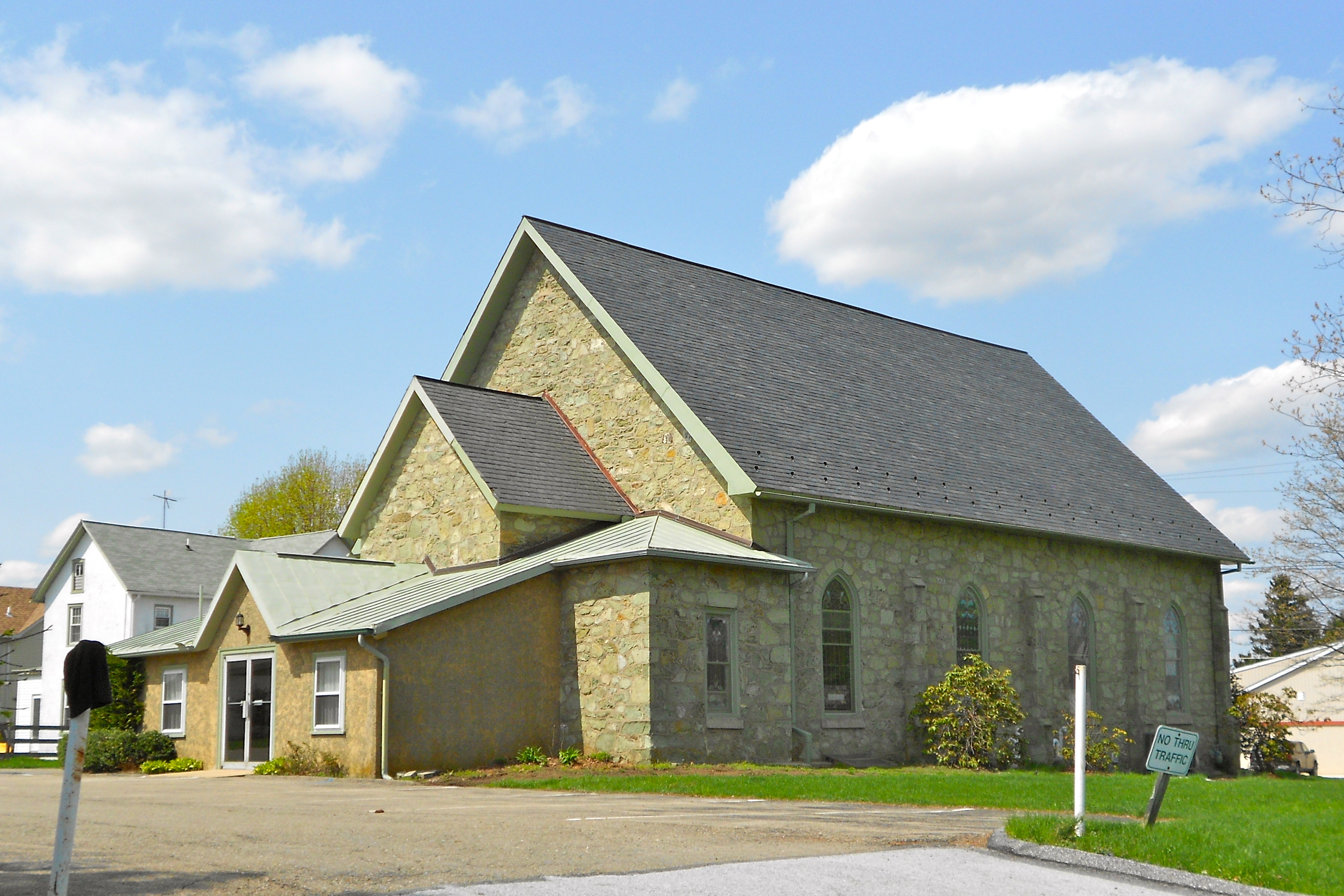 The rear of Nottingham Presbyterian Church in West Nottingham Township, Chester County, Pennsylvania